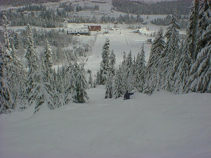 Photo taken by myself from the slopes of Hyak. Easy Gold chairlift originally was supposed to continue up the mtn and dump off at Blowdown, but due to a money shortage they stopped at its current location. This is why the run just above the unload station is called "New Cut". It was never supposed to be a ski run (who would make a run dump out into the unload station), and to this day it has never been given a real name.